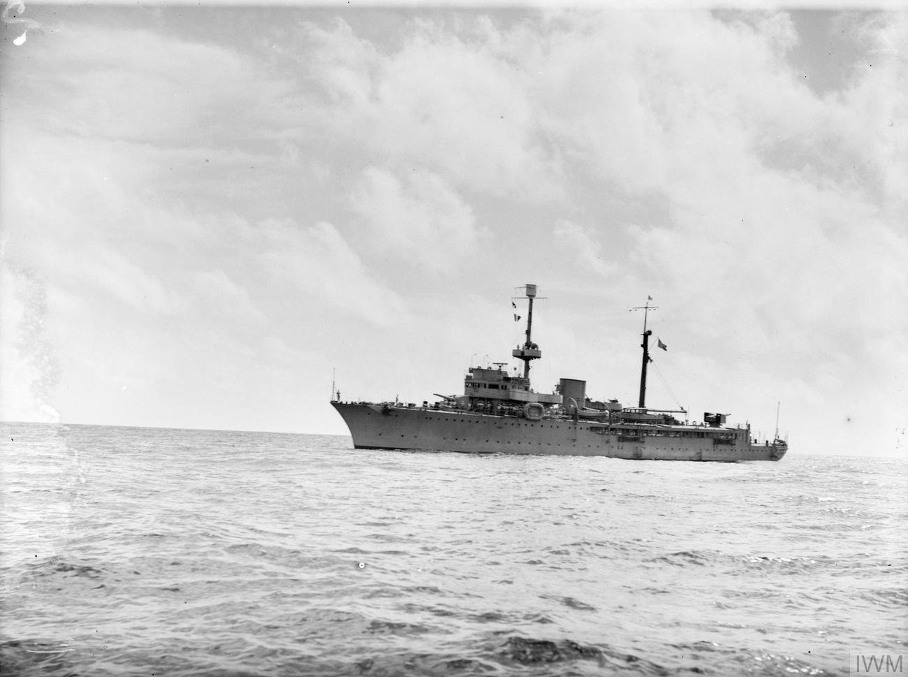 ITALIAN WARSHIP SURRENDERS AT COLOMBO. 14 SEPTEMBER 1943. THE ITALIAN COLONIAL SLOOP ERITREA A 2170 TONS, ESCORT VESSEL WITH A SPEED OF 20 KNOTS, ENTERED COLOMBO HARBOUR RECENTLY TO SURRENDER. Portside view of the ERITREA.